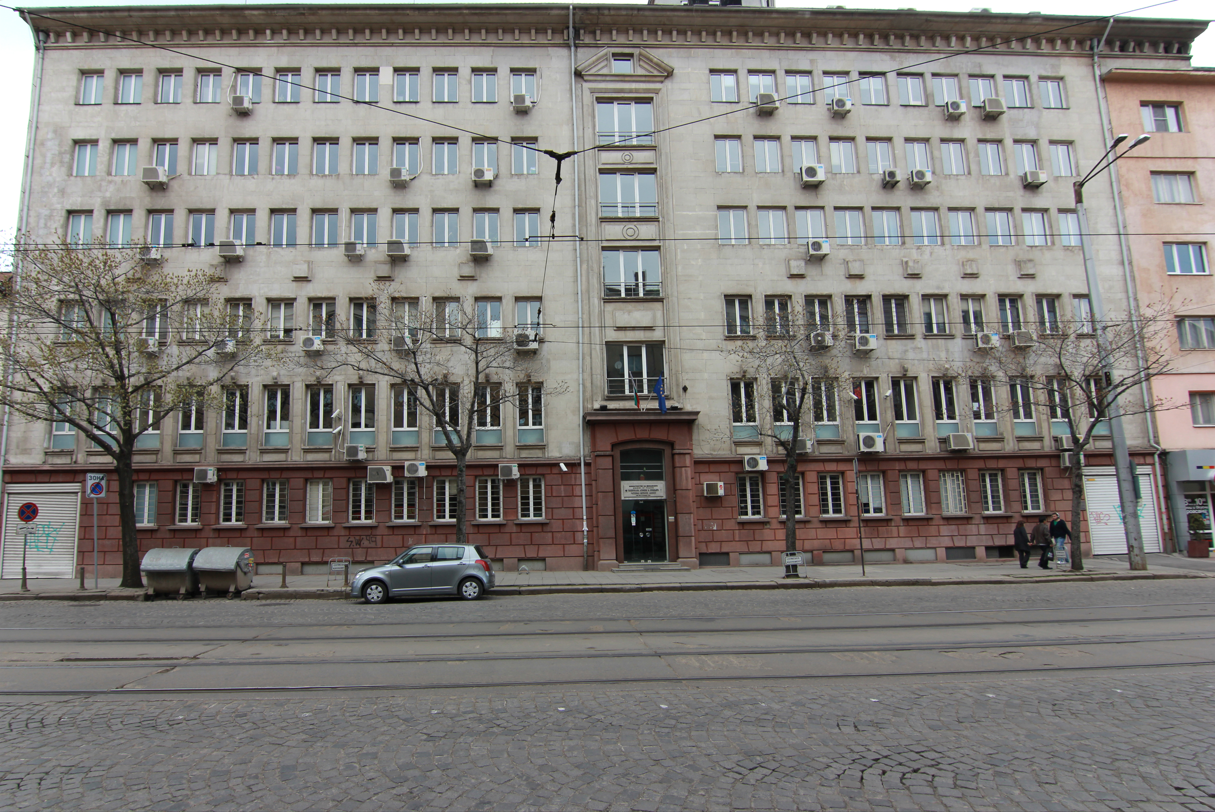 Bulgarian National Revenue Agency